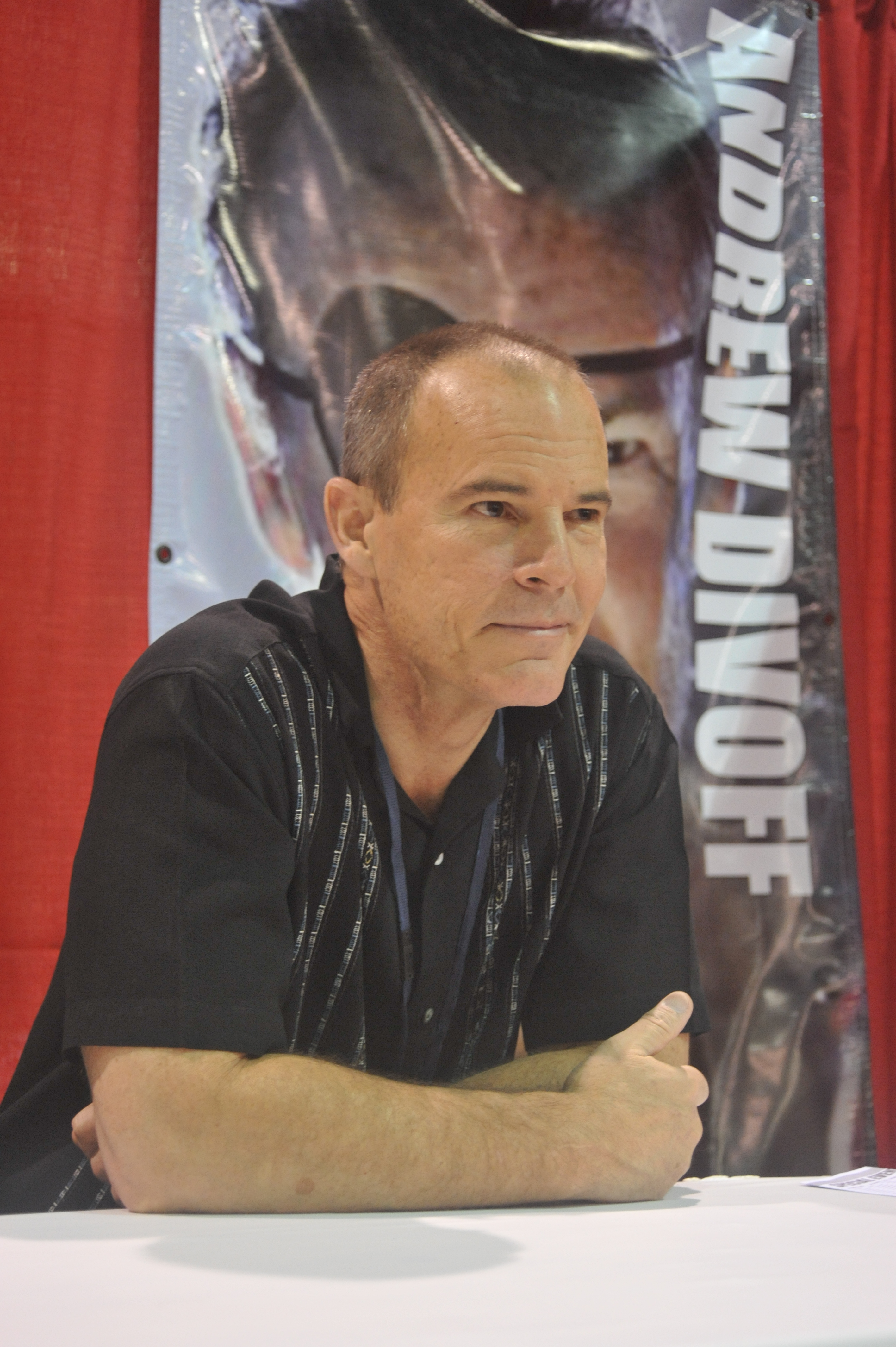 Photo of Andrew Divoff taken at AdventureCon in Knoxville, TN, on June 13, 2008, by Michael Dayah. Michael Dayah is the copyright holder and the uploader.